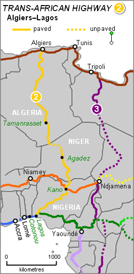 Updated map of Trans-Sahara Highway and adjoining Trans-African Highways.